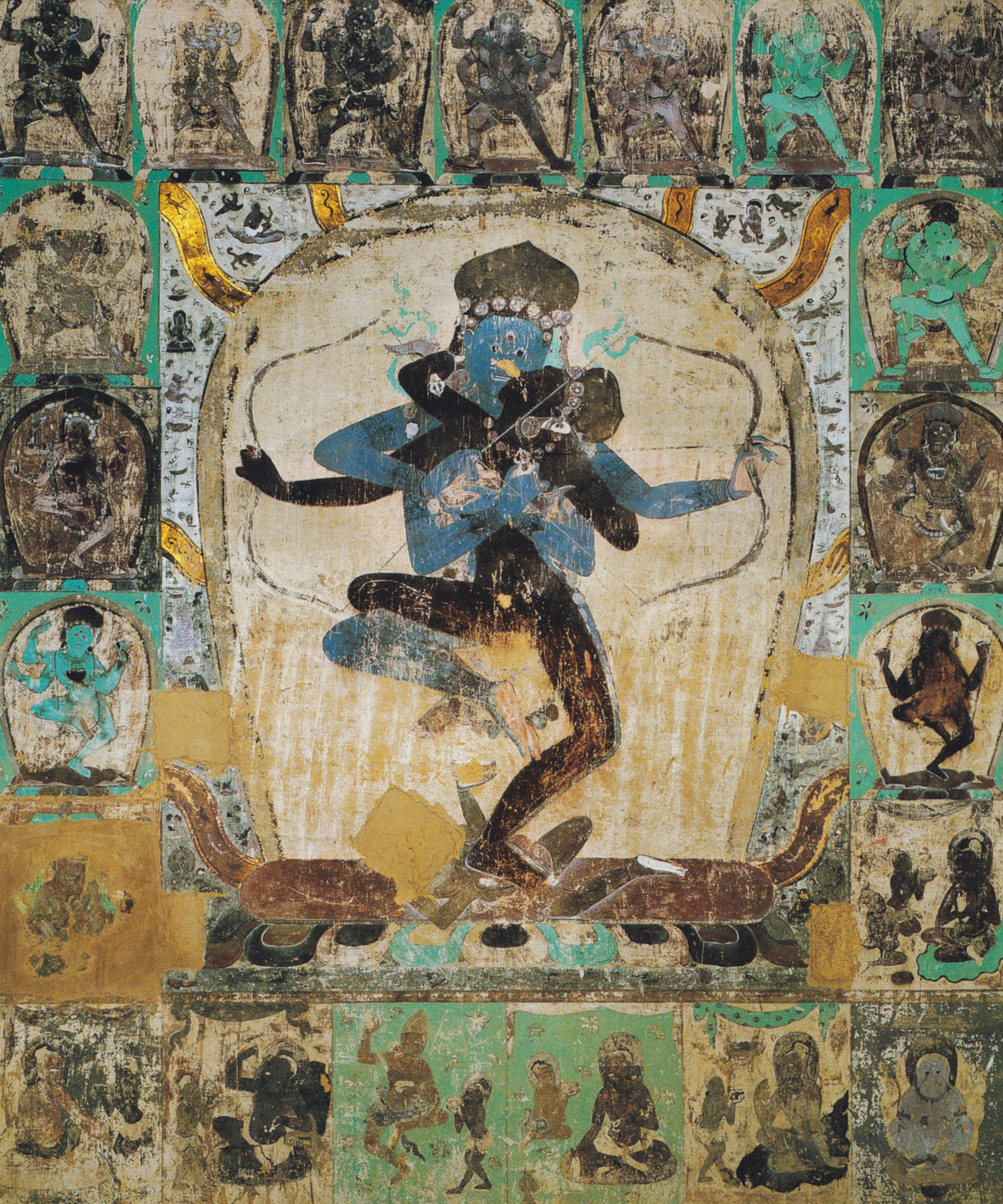 The Tantric image from Cave 465, Dunhuang. Yuan dynasty.